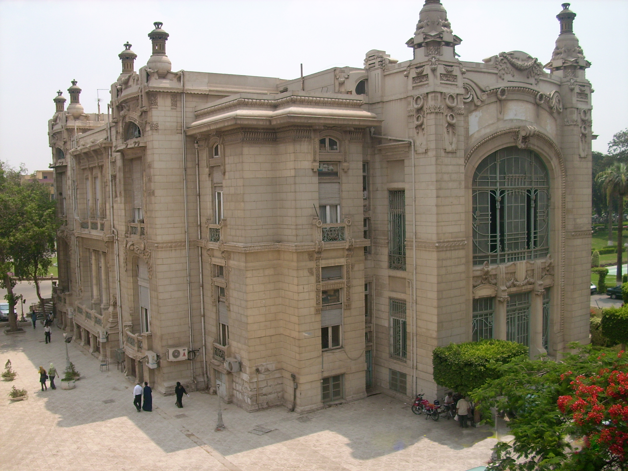 Ain Shams University-Zafarana Palace